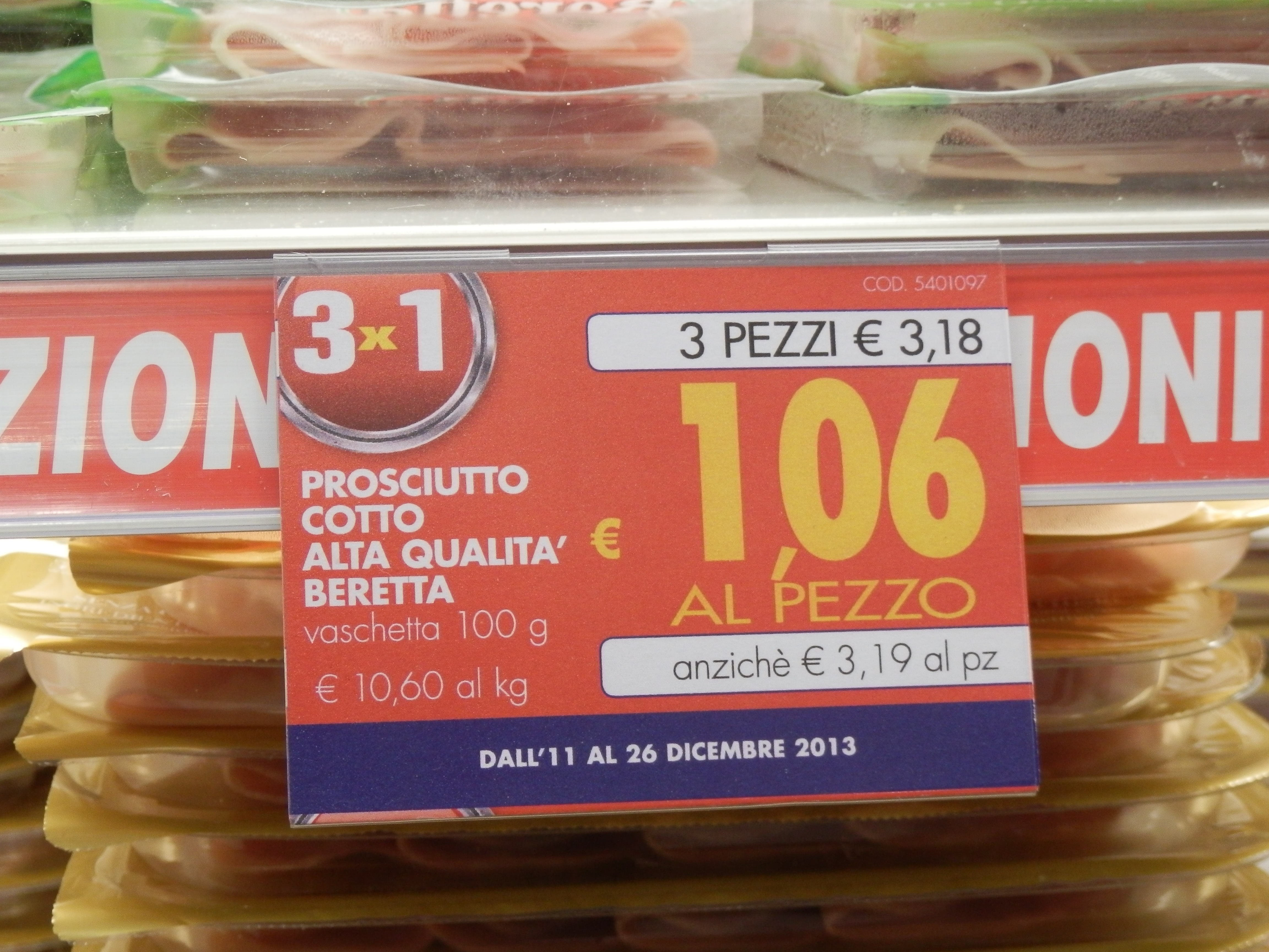 A rare 3x1 sales promotion in an Italian supermarket. Photo taken at the Tigros supermarket in Ispra (Varese)